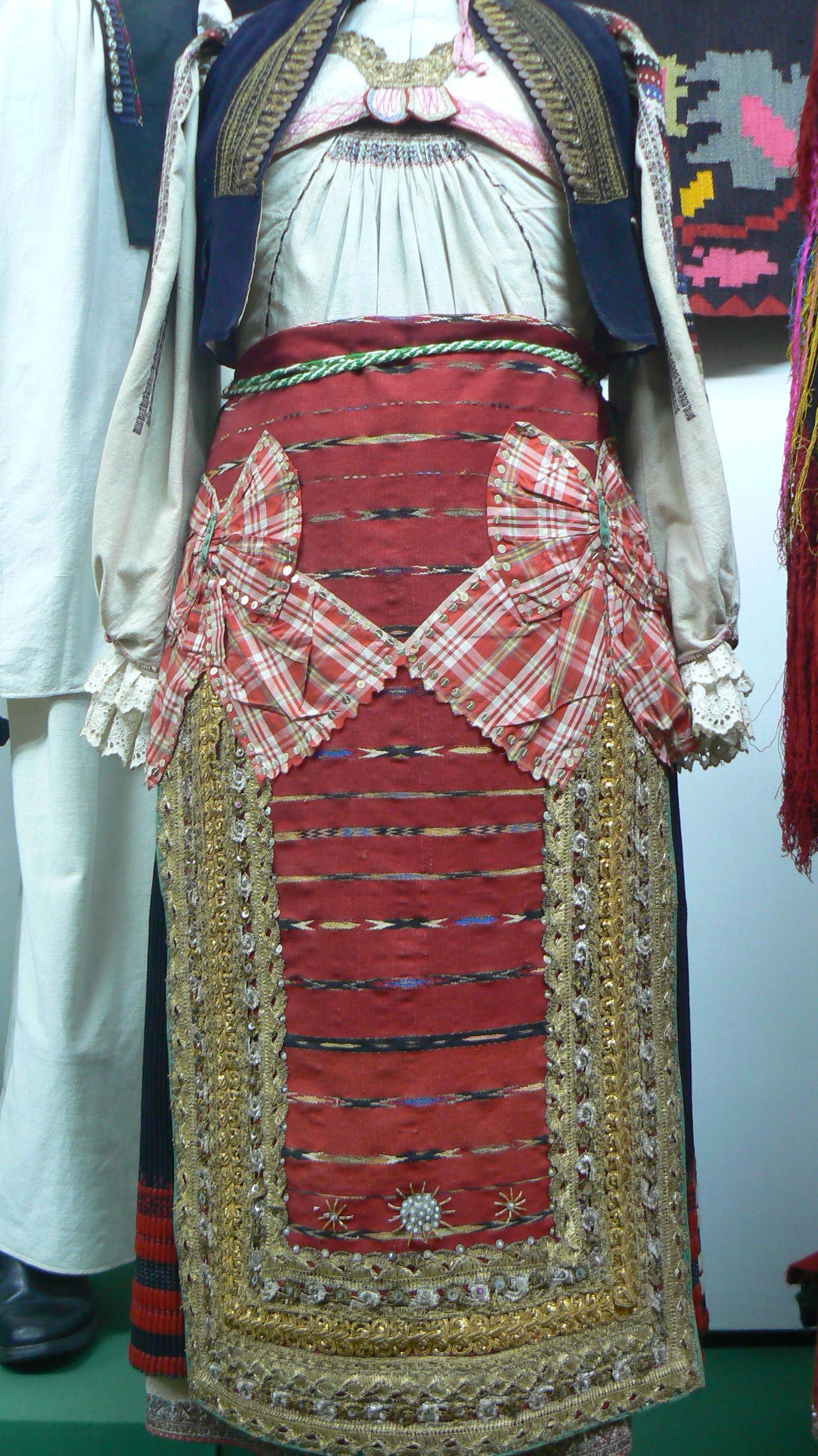 Female costume of a Banat Bulgarian woman from village Bardarski geran. Exhibited in the Ethnographic complex "Saint Sophronius of Vratsa". Vratsa, Bulgaria